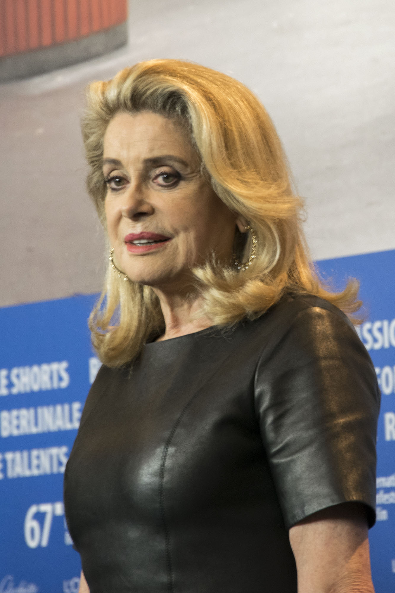 Catherine Deneuve at the press conference of the film The Midwife at the 2017 Berlin International Film Festival